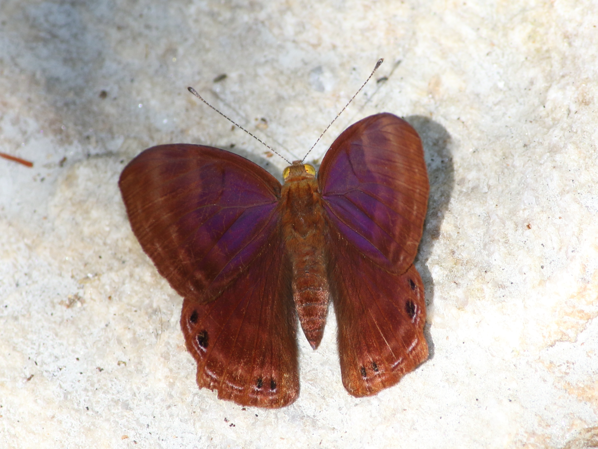 This picture was taken during the project Wiki Loves Butterfly in Buxa Tiger Reserve, Alipurduar,West Bengal, India. Open wing position of Abisara bifasciata Moore, 1877 – Double-banded Judy